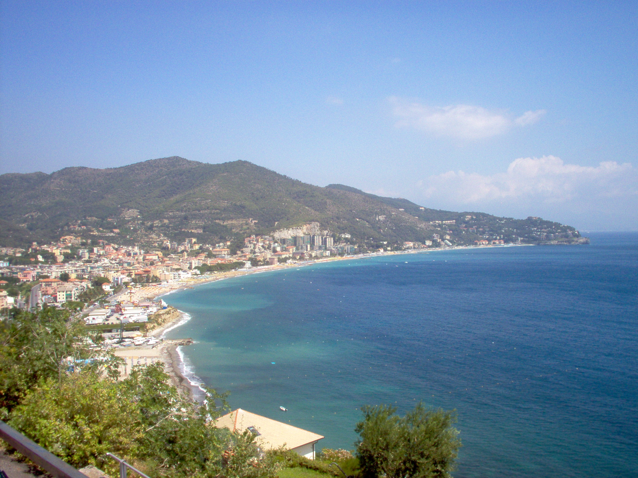 Photo of Spotorno